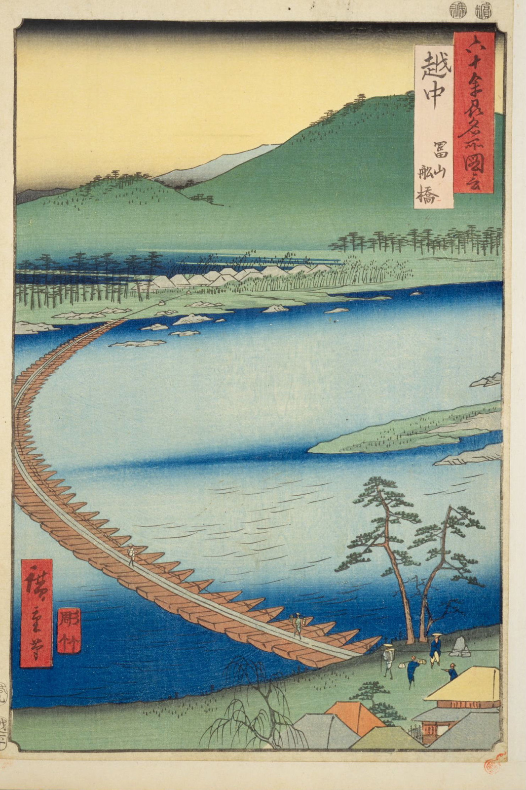 Part of the series Famous Places in the Sixty-odd Provinces, No. 34 (Hokurikudō group)